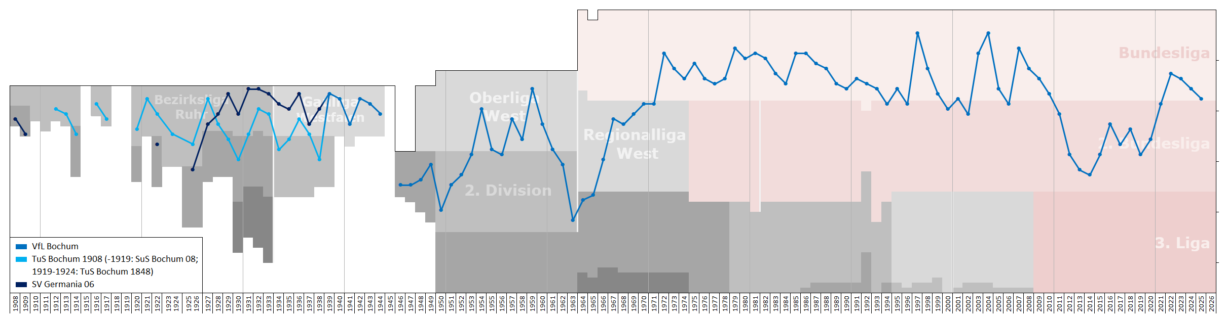 Chart of end-season table positions of VfL Bochum in the football league system of Germany. Data source: RSSSF, wikipedia, f-archiv.de, fussball.de